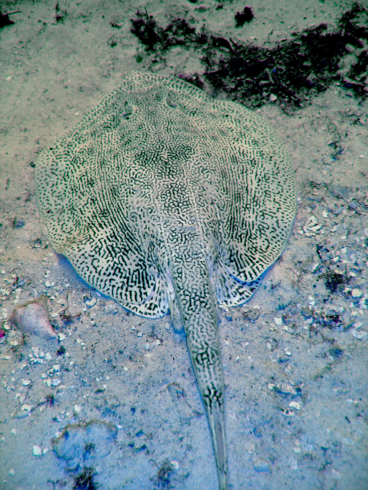 Yellow stingray (Urobatis jamaicensis) off Cozumel, Mexico